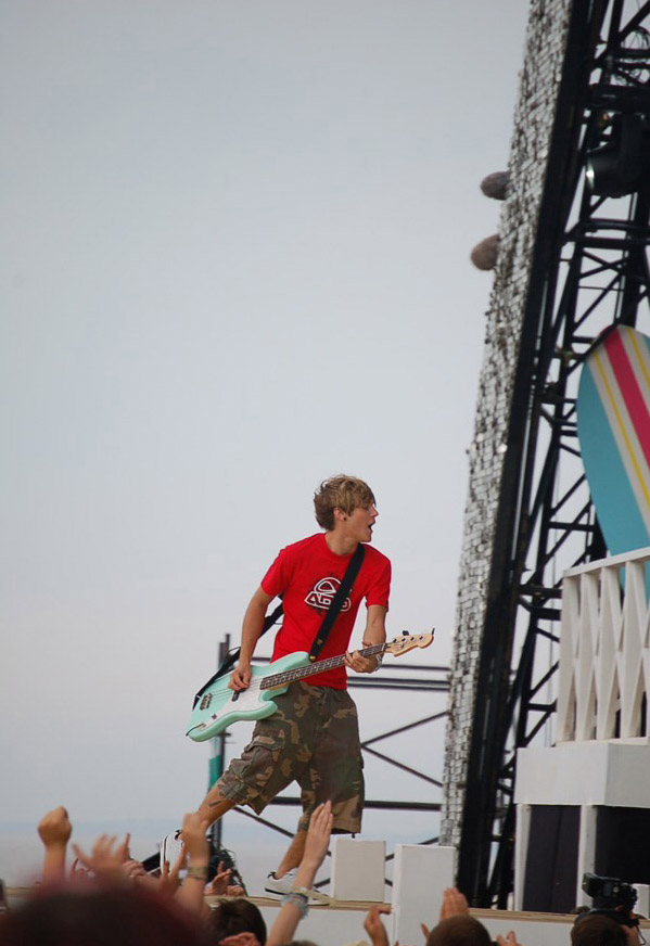 Dougie Poynter of McFly performs onstage at T4 Beach in Weston Super Mare.